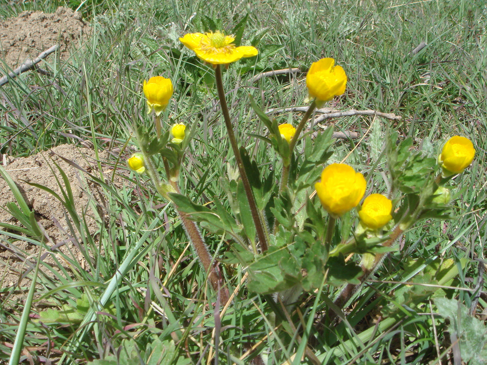 Ranunculus bulbosus subsp. aleae.